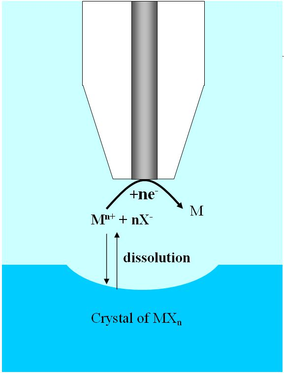 Fig. 10. Scheme of SECM-induced ionic crystal dissolution.